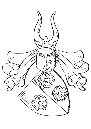 Coat of arms (1350) of the german family von Schleinitz